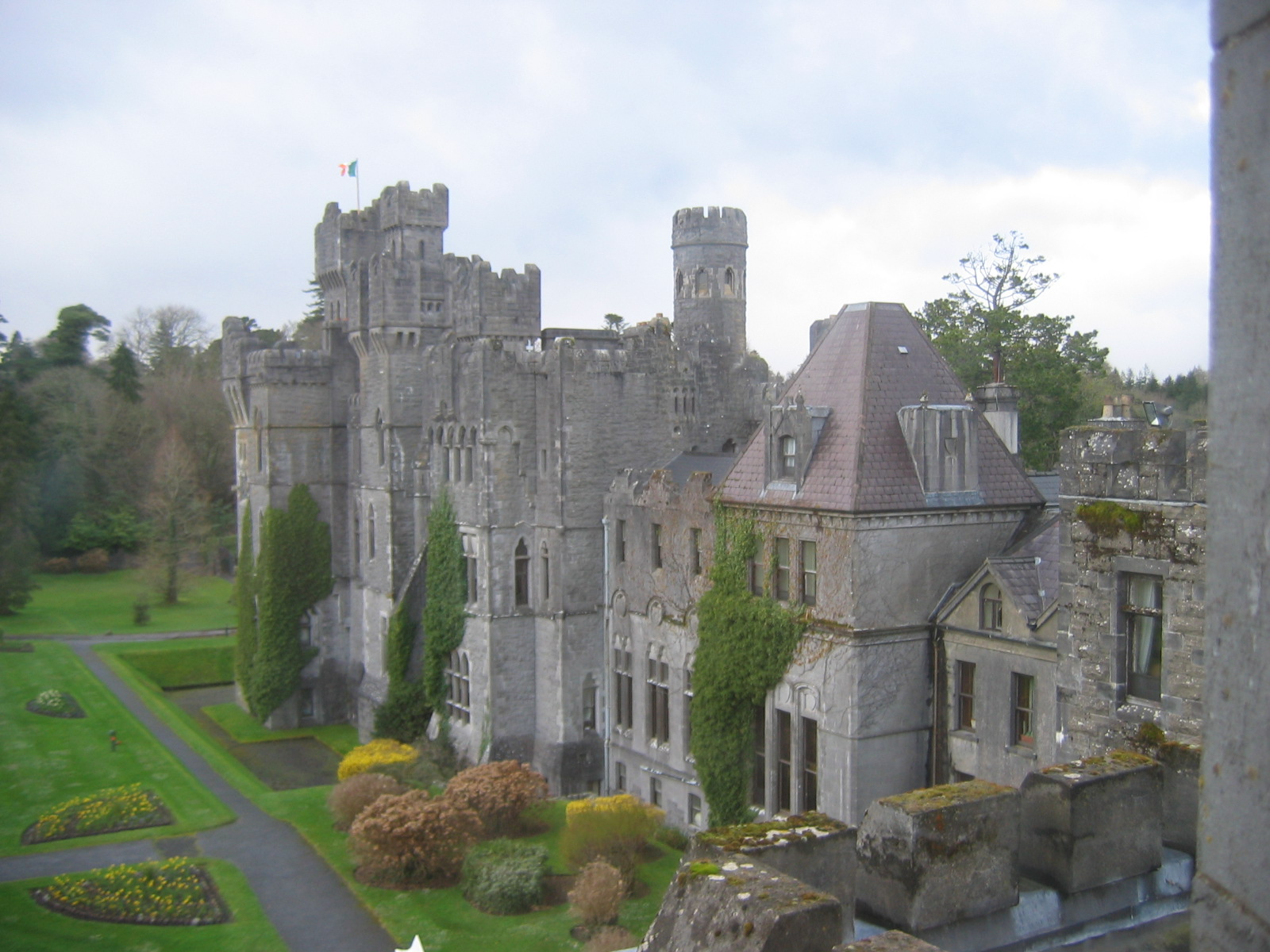 View of Ashford Castle from one of its towers, Co. Mayo, Ireland